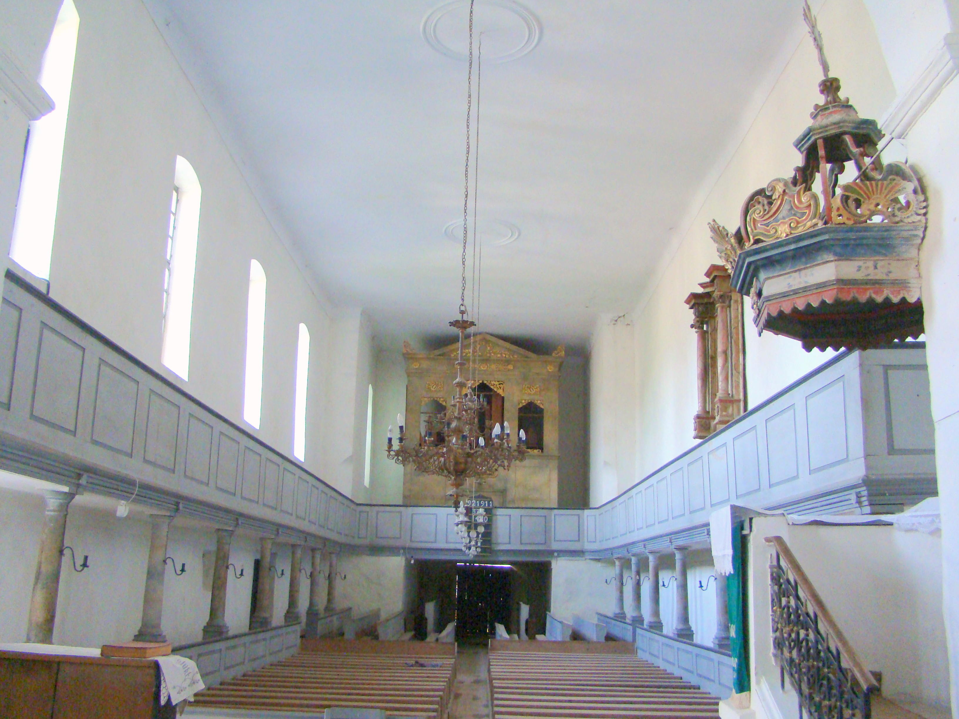 Fortified church in Ungra, Braşov County, Romania